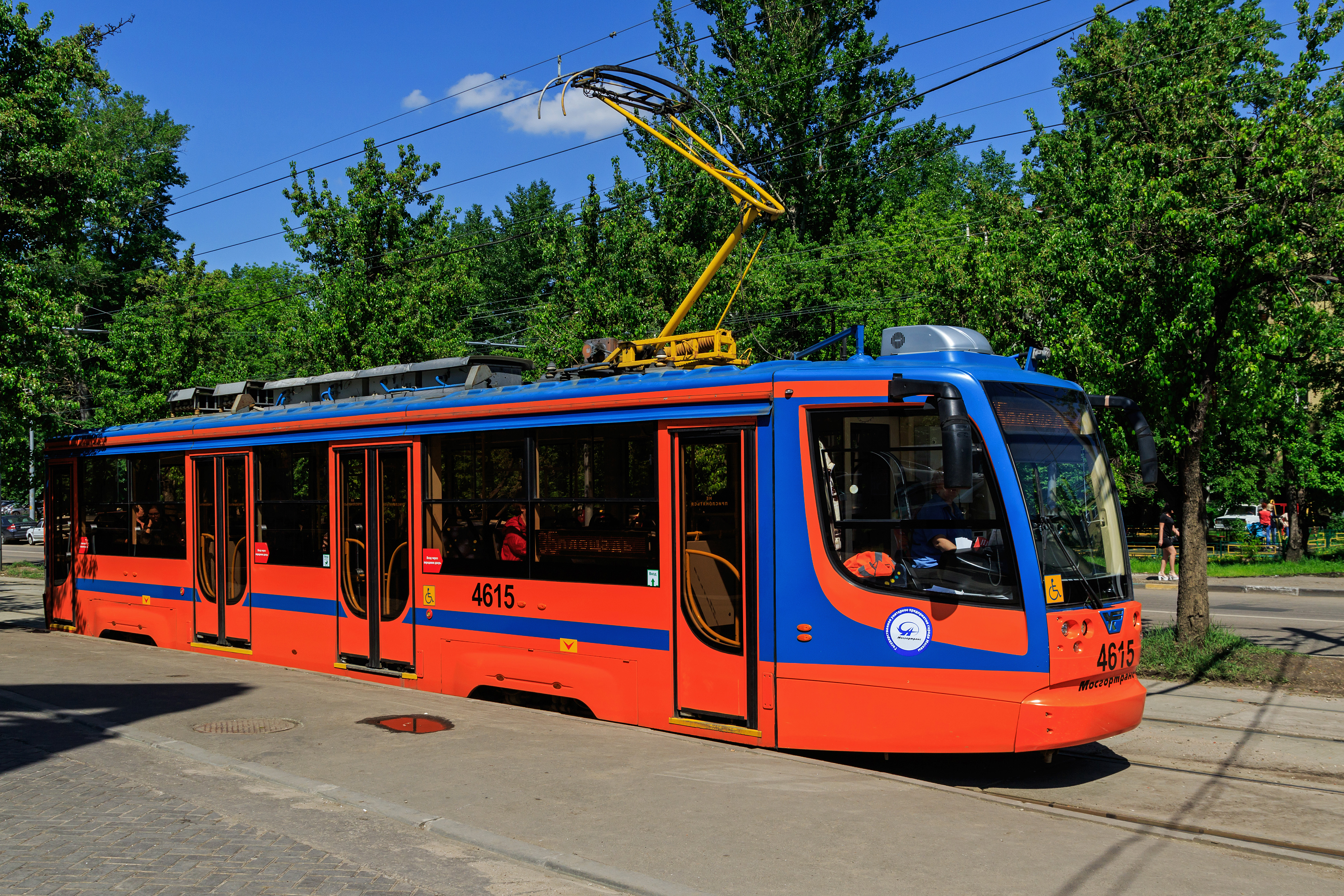 Nagatino-Sadovniki district of Moscow, a tram on Nagatinskaya Street